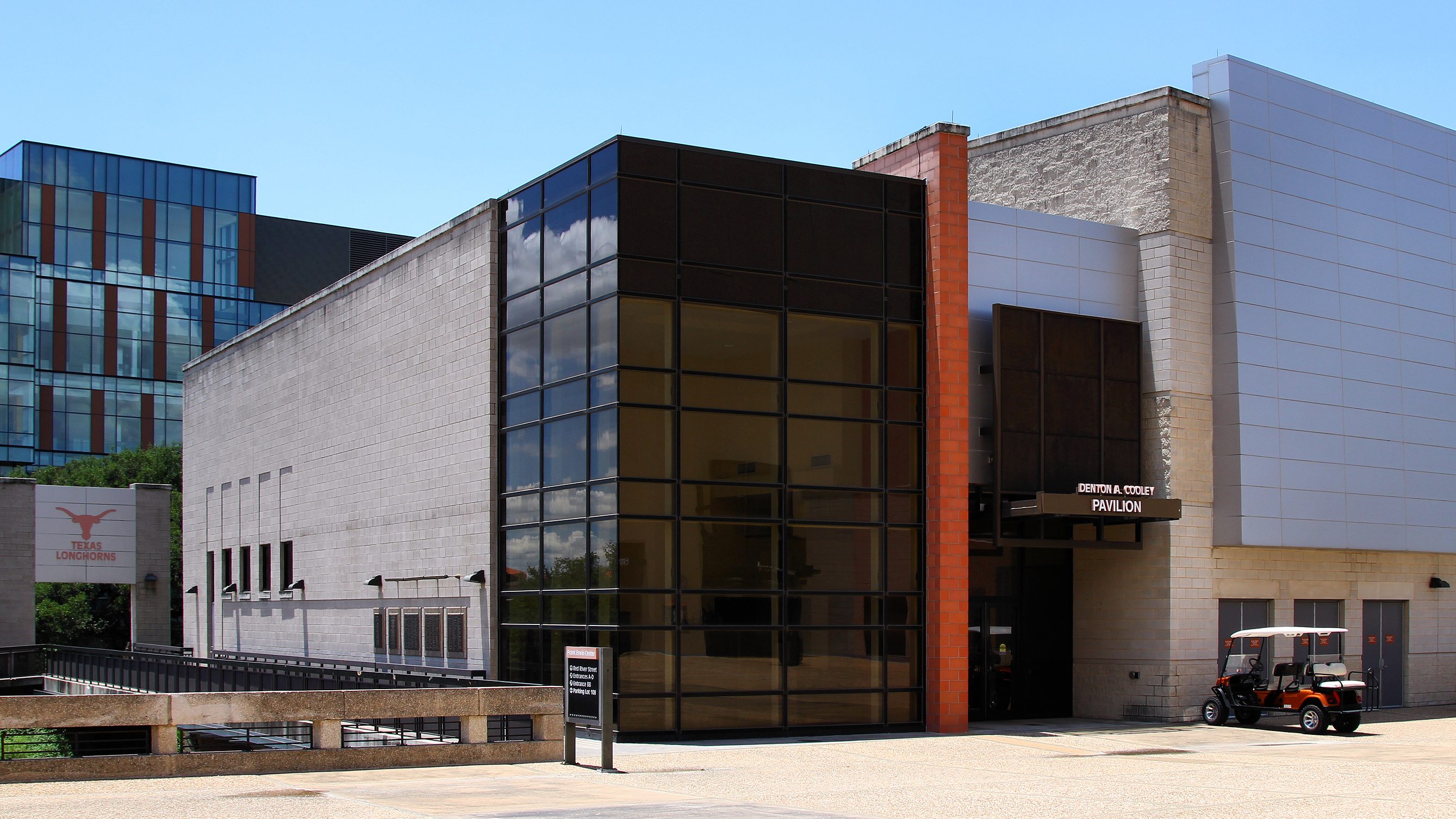 The Denton A. Cooley Pavilion in Austin, Texas, United States is the practice and training facility for the men's and women's basketball teams at the University of Texas at Austin.